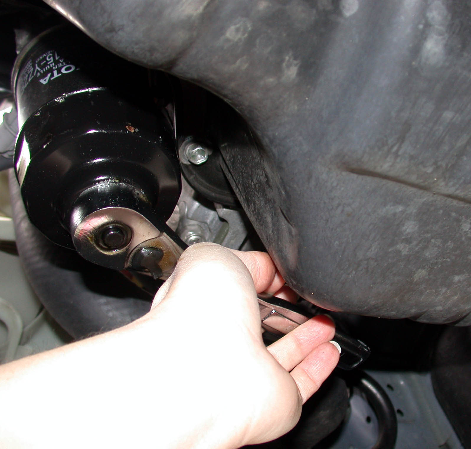 Using an oil filter wrench to replace the oil filter on an automobile as part of an oil change.